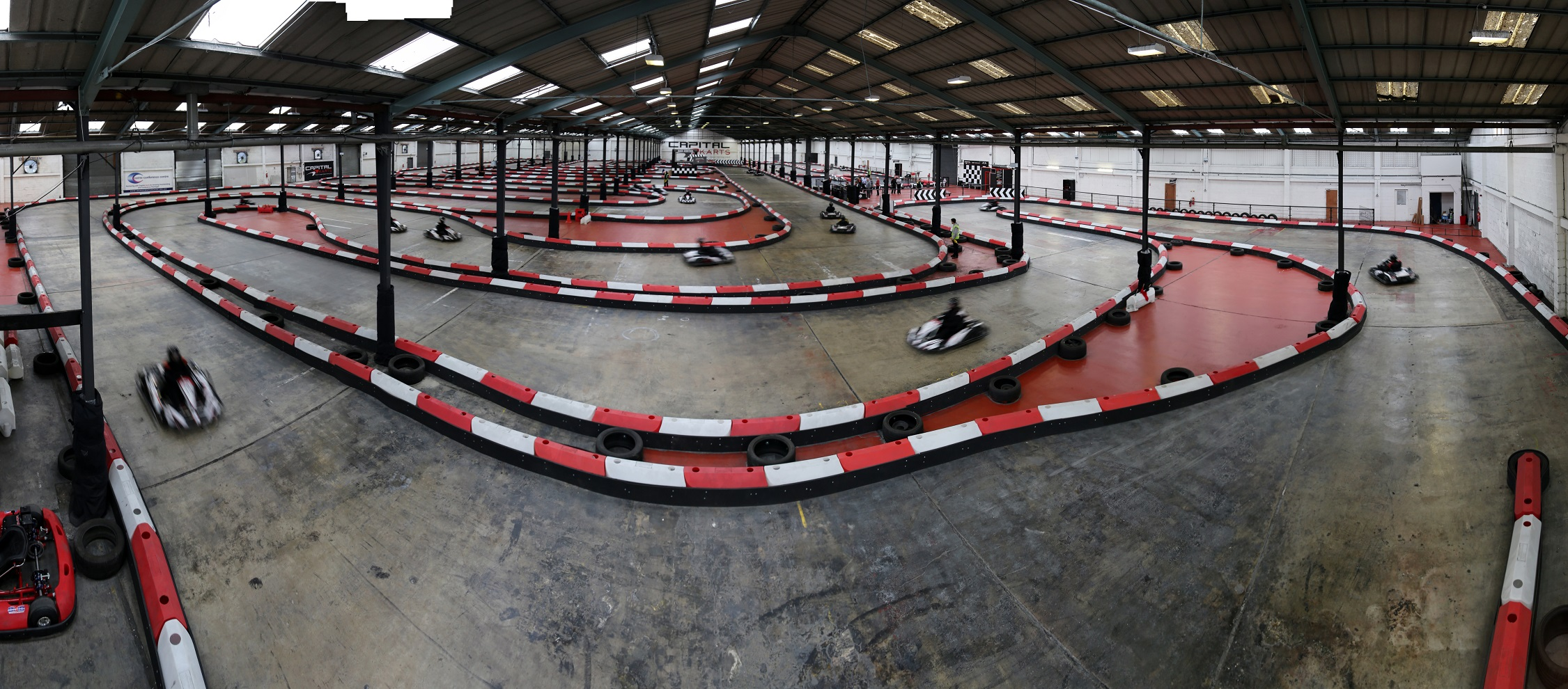 Capital Karts Go Karting London Side Track View. Capital Karts Ltd, Unit 1, Rippleside Commercial Estate, Ripple Rd, London IG11 0RJ